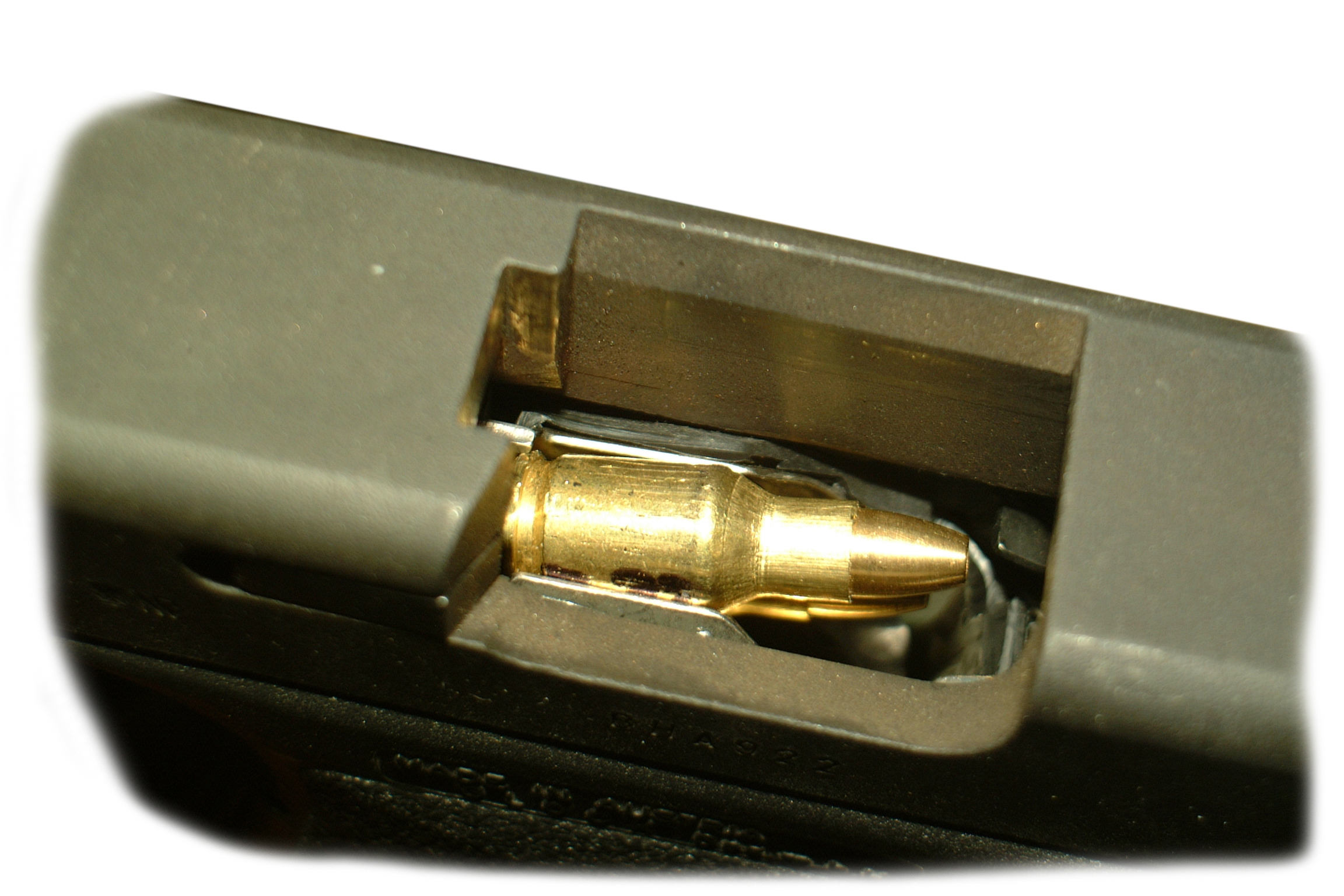 .224 BOZ Glock drop-in 9mm conversion